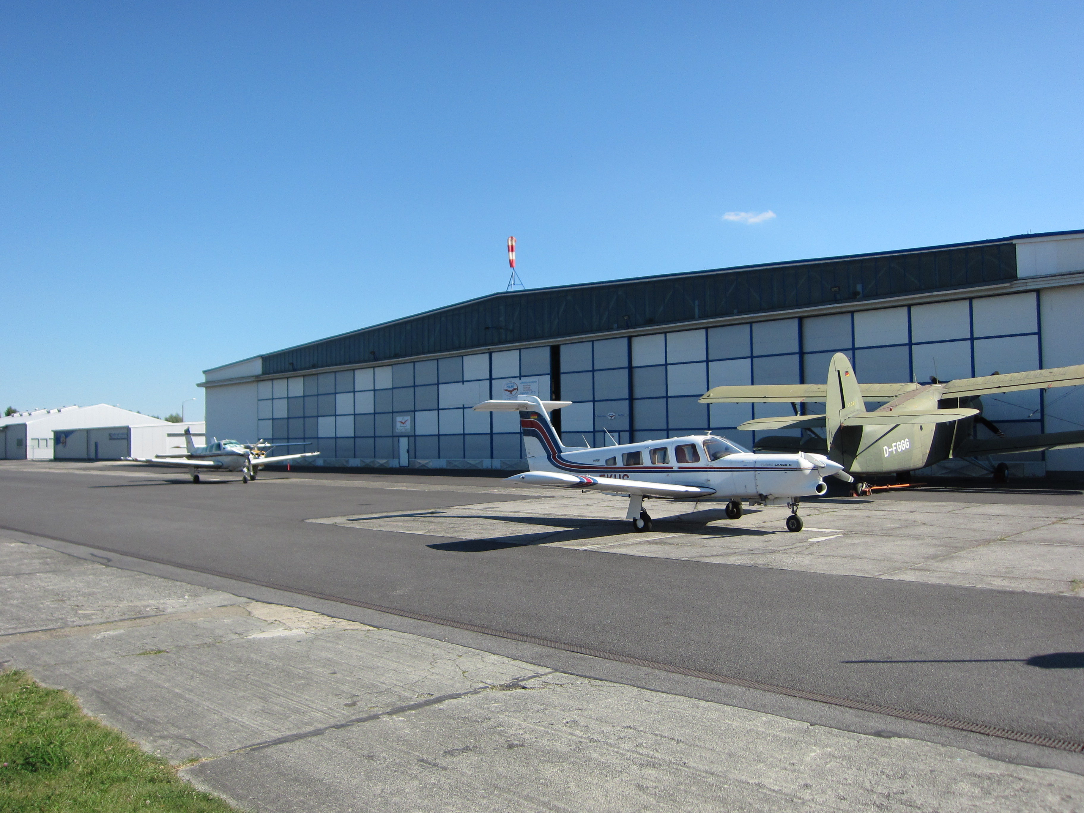 Kamenz airfield apron with aircraft D-EKHS of type Piper PA-32RT-300 and D-FGGG of type Antonov An 2 in front of a hangar